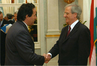 His Excellency, Bernard Leclerc Ambassador Extraordinary and Plenipotentiary of the Central African Republic (left) shaking hands with the President of Hungary. The photograph was taken at the presentation of credentials, which is a ceremony all Ambassadors take part in on arrival in the host country.